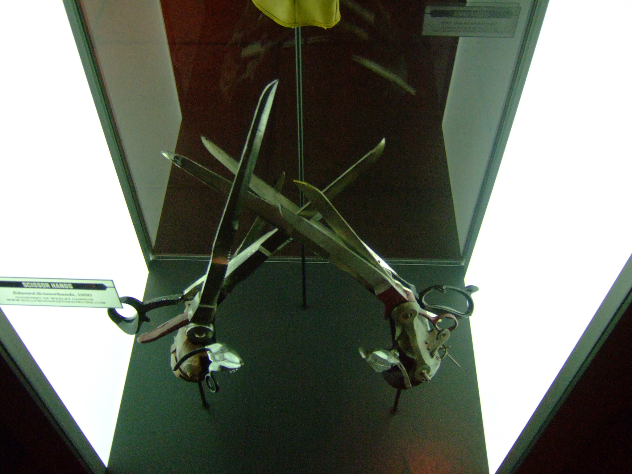 Scissors from Edward Scissorhands displayed at the Experience Music Project/Science Fiction Hall of Fame, Seattle.